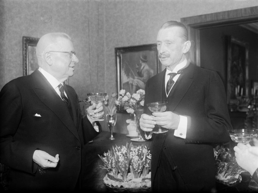 Paasikivi noted in his diary that the morning dressed Mannerheim was in a good mood on the day of change-over of president.